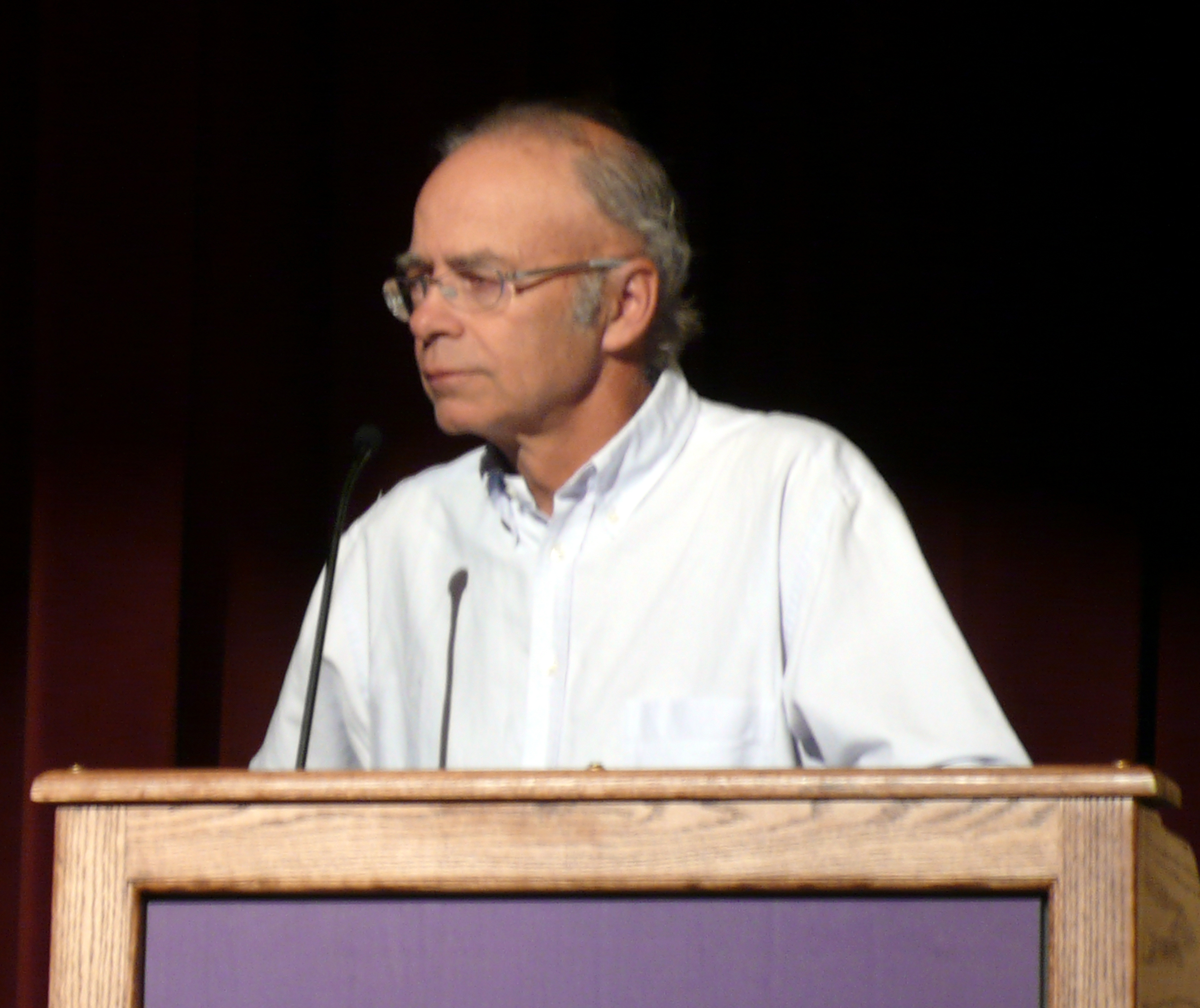 Peter Singer lecturing at Washington University in St Louis